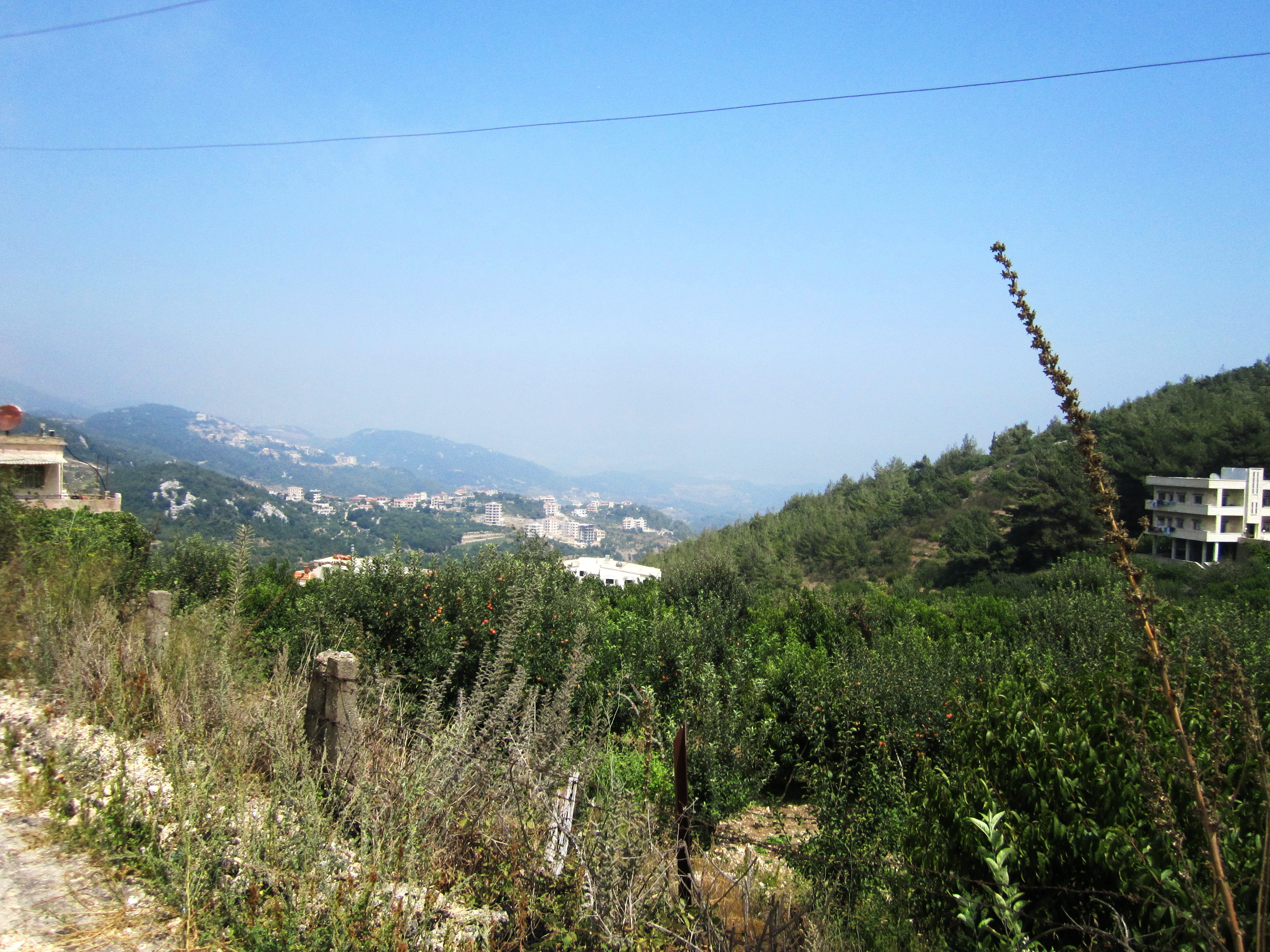 Parts of Keorkeuna village as seen from Ekizoluokh (Nab'ain) village, Kesab, Latakia Governorate, Syria